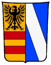 Coat of arms of Straß im Straßertale, Lower Austria